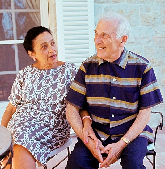 Russian-born French painter Marc Chagall (Moishe Segal) smiling next to his wife Vava Brodsky (Valentina Brodsky). Saint-Paul de Vence, September 1967